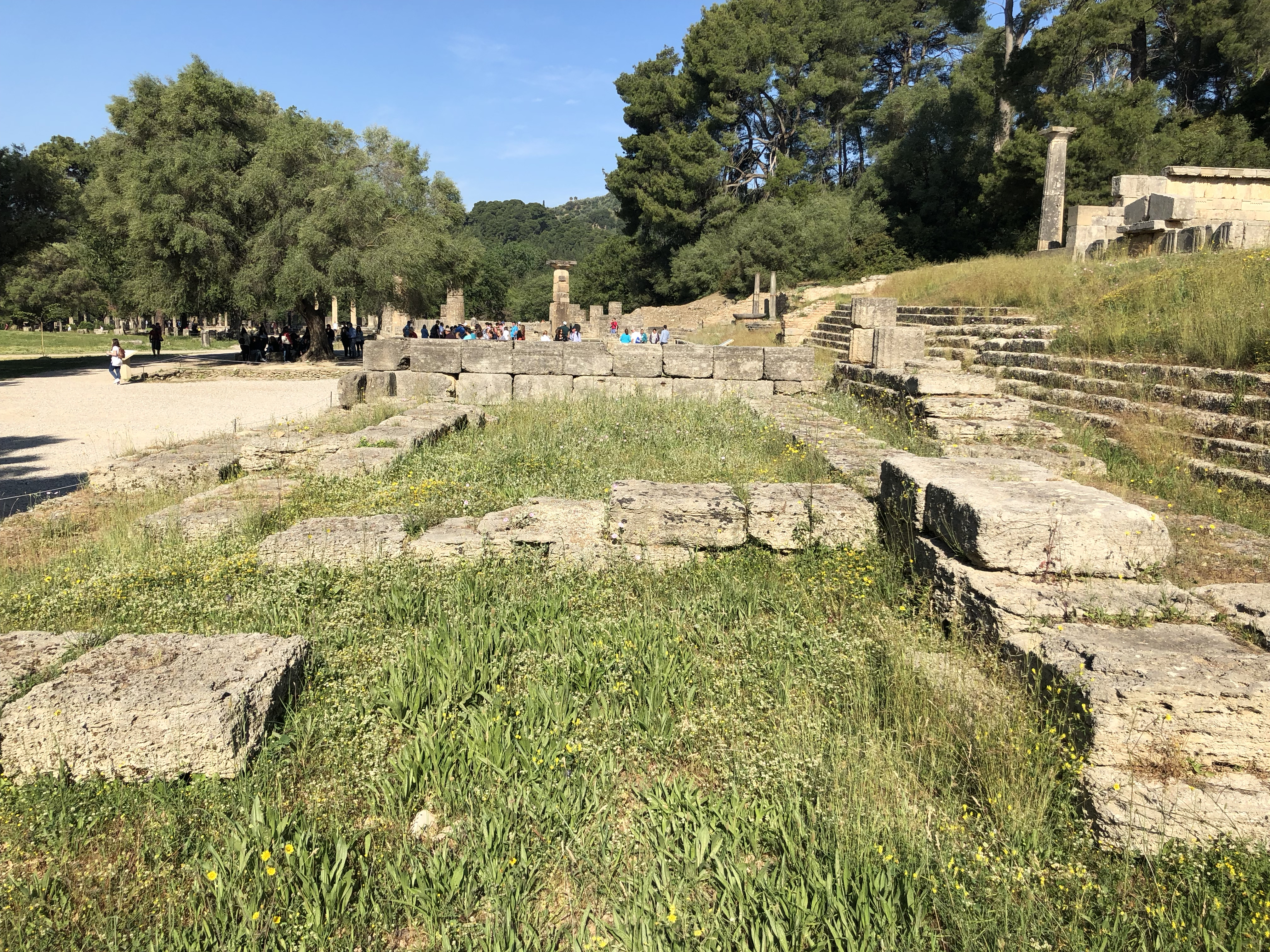 Metroon (Olympia)